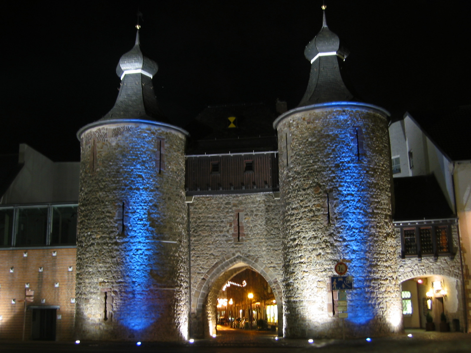 Witches tower in Jülich with new permanent light-installation